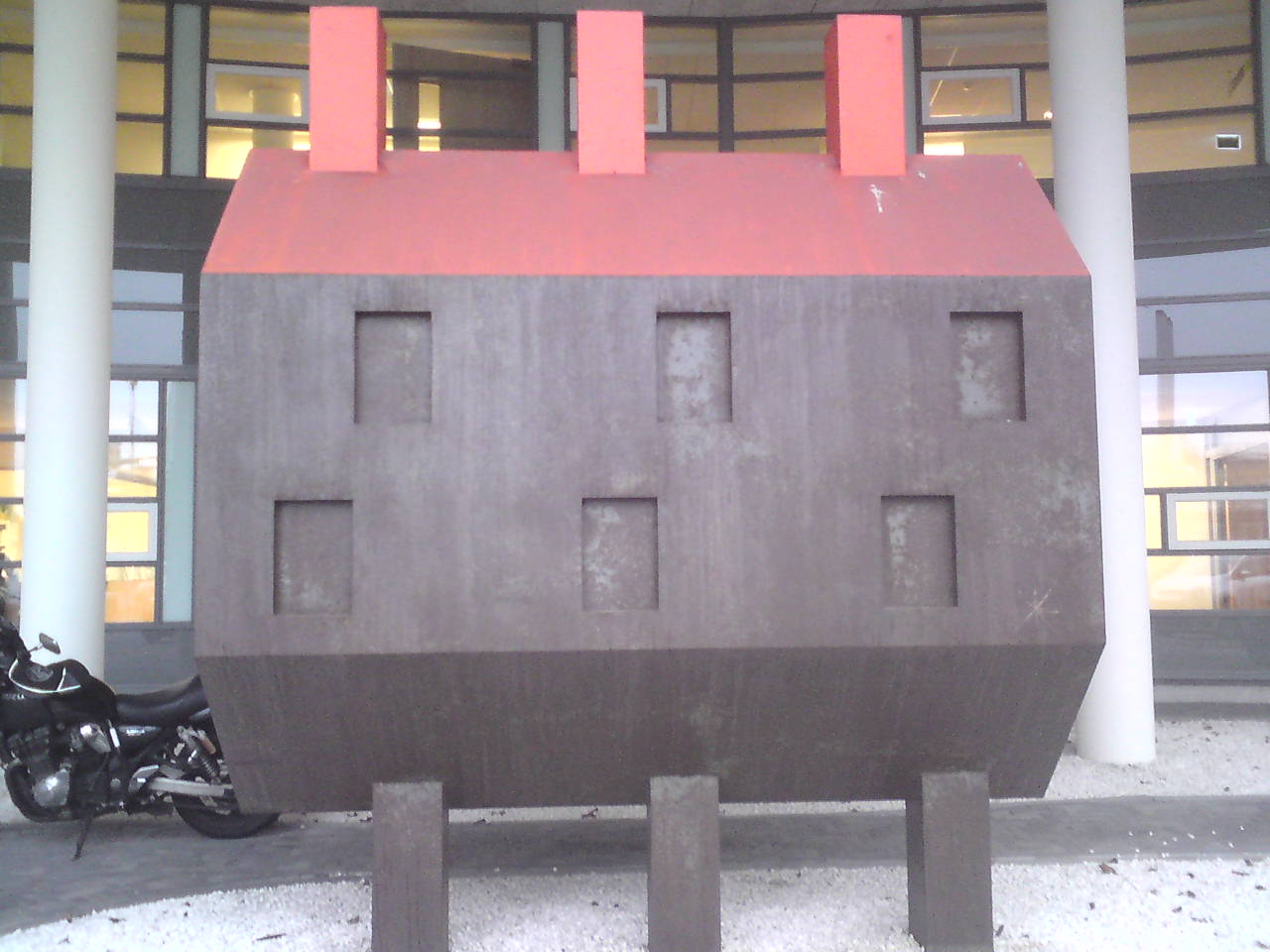 Work: Het Huis; Artist: Han Schuil; Year: 2004; Street: Maelsonstraat near nr. 5 (under 2nd floor of the hospital) in Hoorn; Material: Weathering Steel.